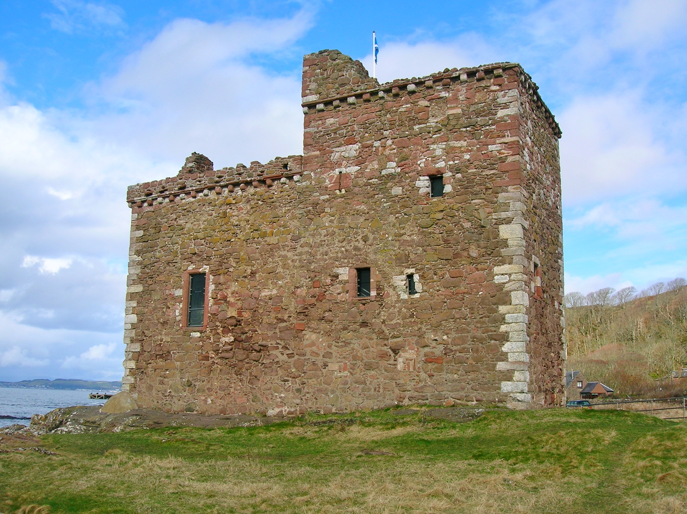 Portencross Castle, southern side, North Ayrshire, Scotland.